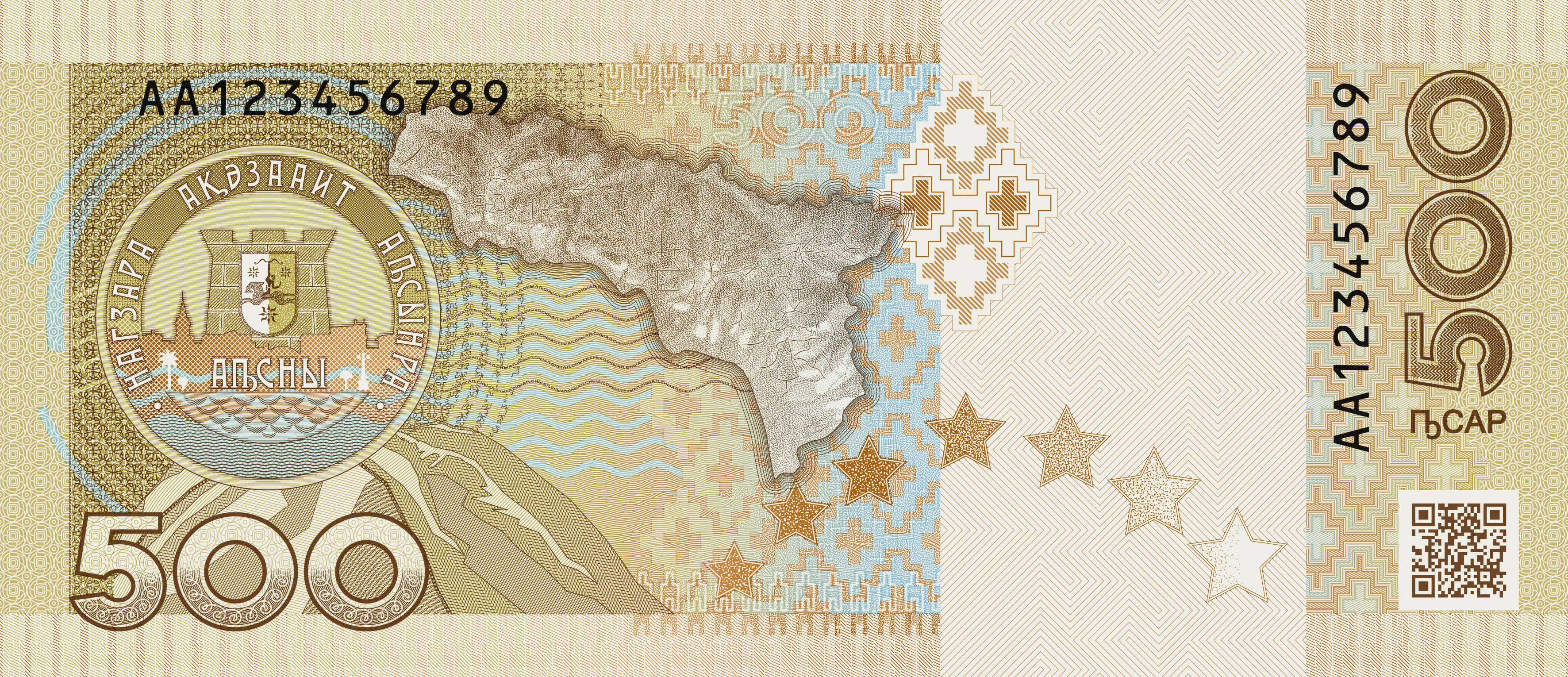 500 apsar 2018